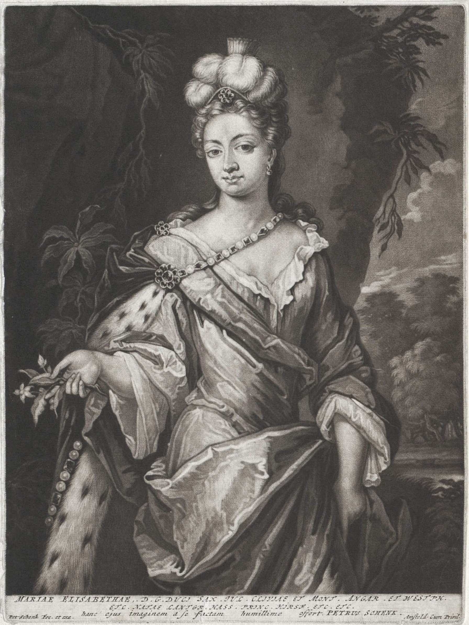 Portrait of Marie Elisabeth of Hesse-Darmstadt (1656-1715)